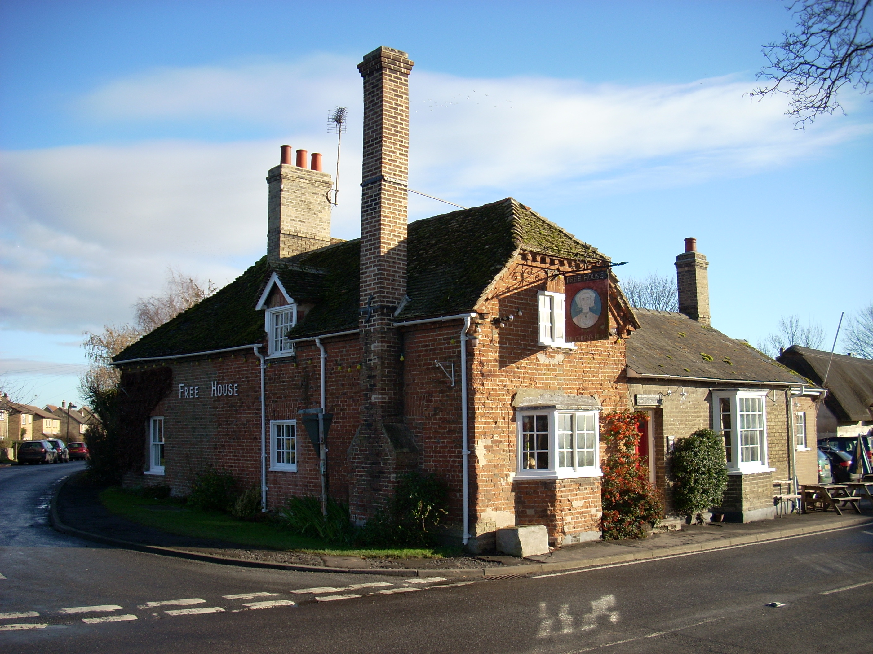 The Queen's Head, Newton, Cambridgeshire, CB22 7PG, England